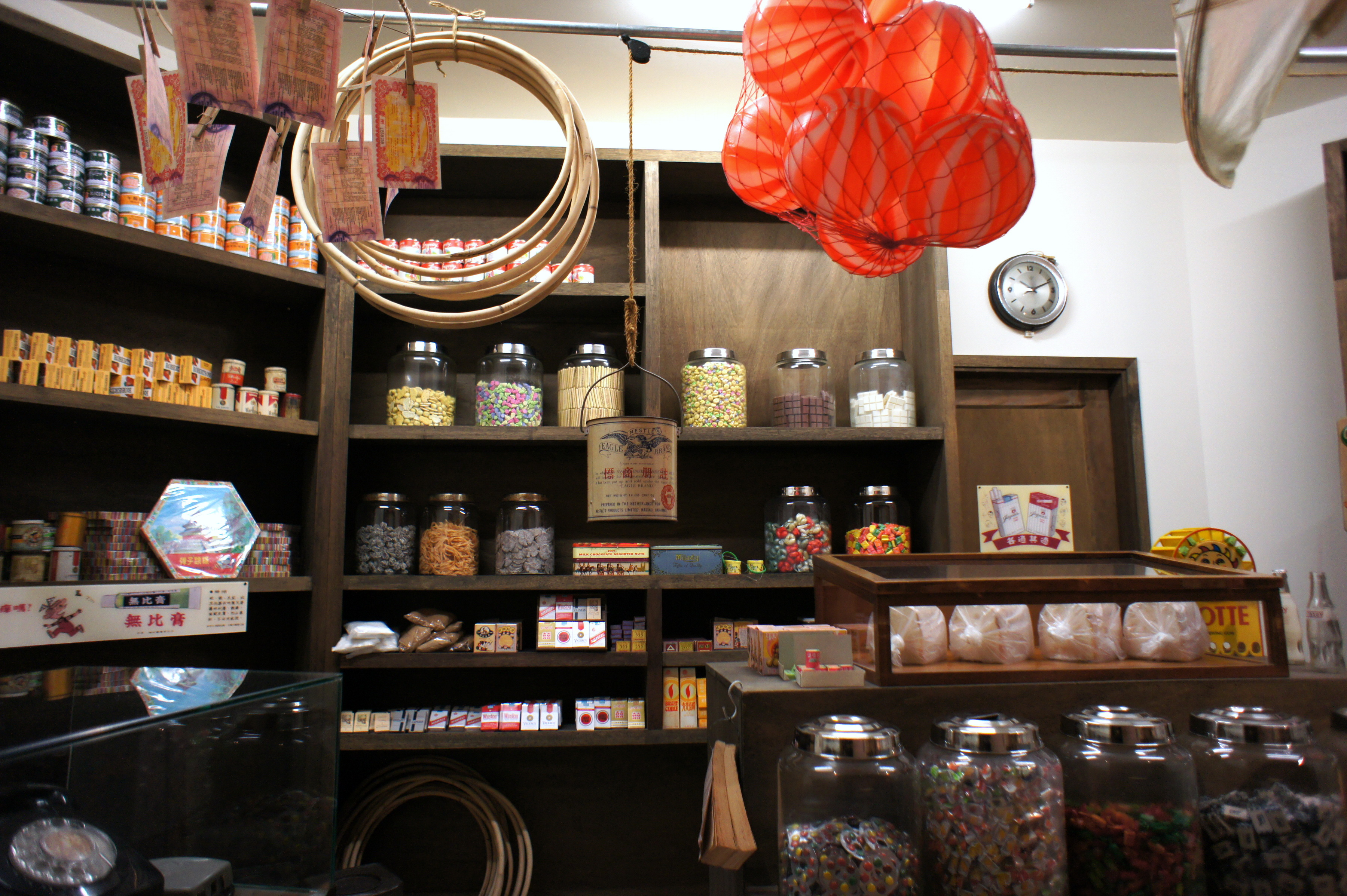 A typical grocery store of 1960s in Hong Kong (Collections of the Hong Kong Museum of History)